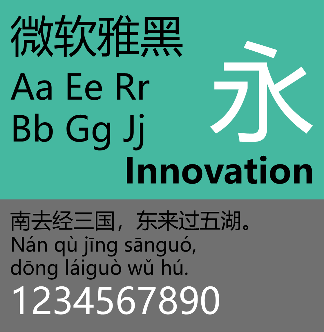 Sample of Microsoft YaHei font, displayed is Microsoft YaHei v6.23. Shown in picture are Latin alphabets “AaBbEeGgJjRr”, “Innovation”in bold, Simplified Chinese “南去经三国，东来过五湖。” with its pinyin, and numerals 1-0.